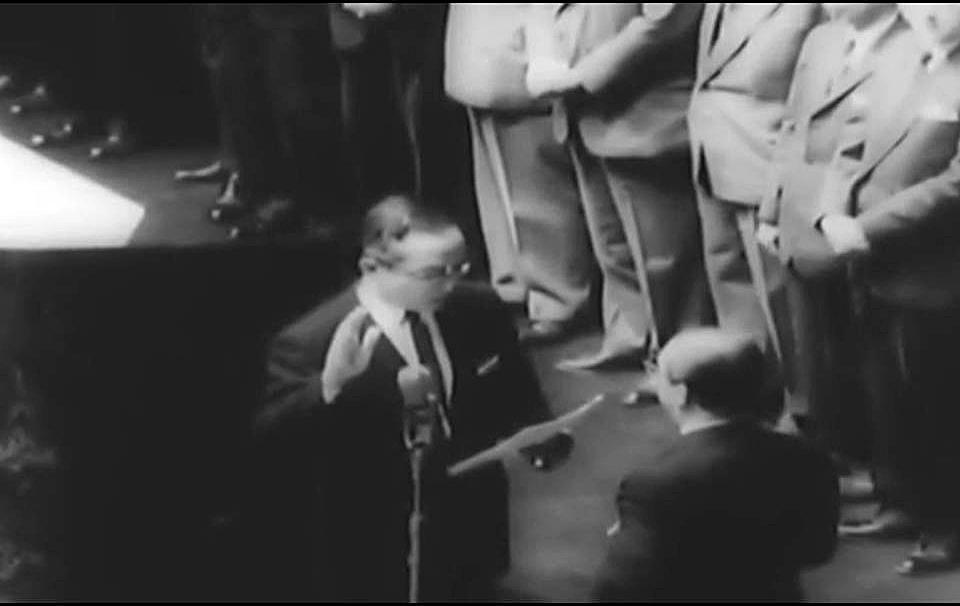 U Thant swearing in to the United Nations Secretariet